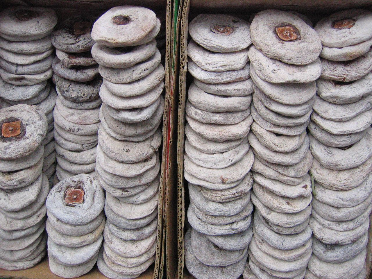 Dried Asian persimmons in Xi'an, China